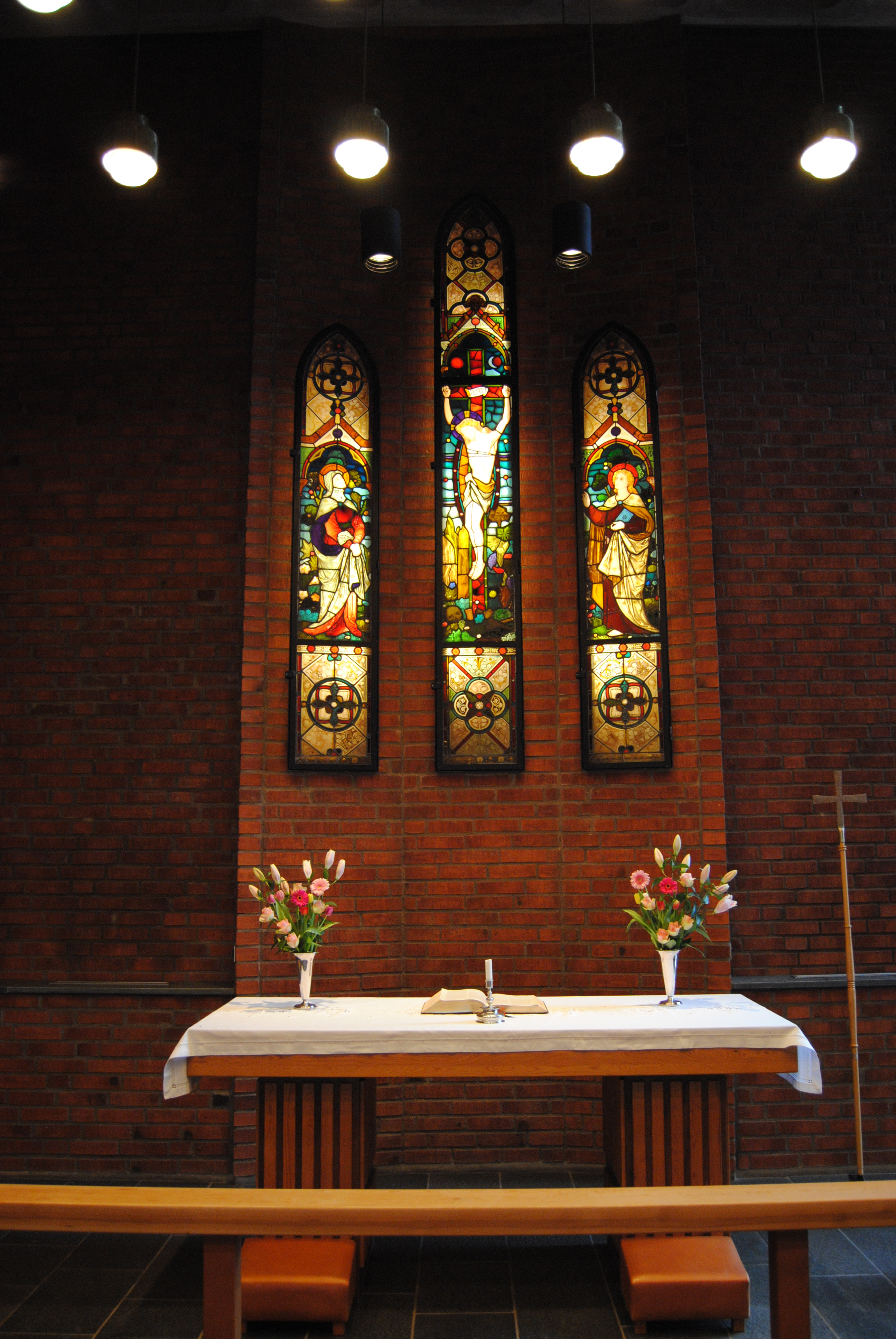 The alter in Kronprinsesse Märthas kirke in Stockholm, the Norwegian church in the city.